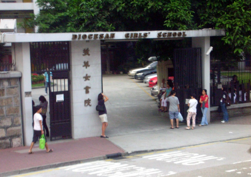 Diocesan Girls' School, Hong Kong